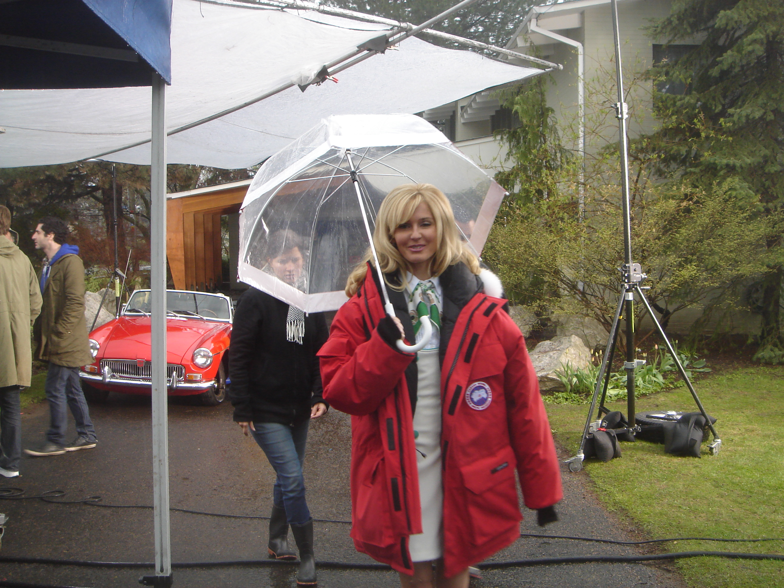 Orbit Shoot - filming a television commercial for Orbit chewing gum in Toronto, Canada.